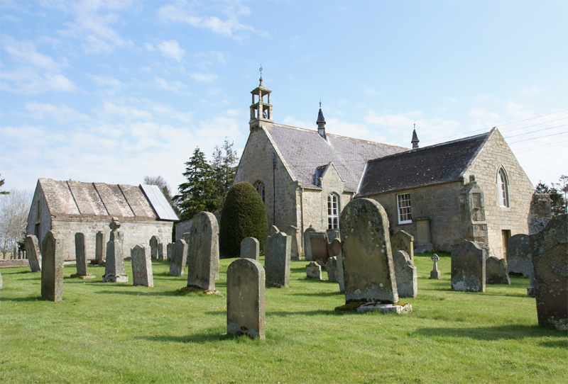 Edrom Church, Scottish Borders, Scotland - Edrom Church (1732) from the south west, with the burial vault to the left and Blackadder Aisle to the right